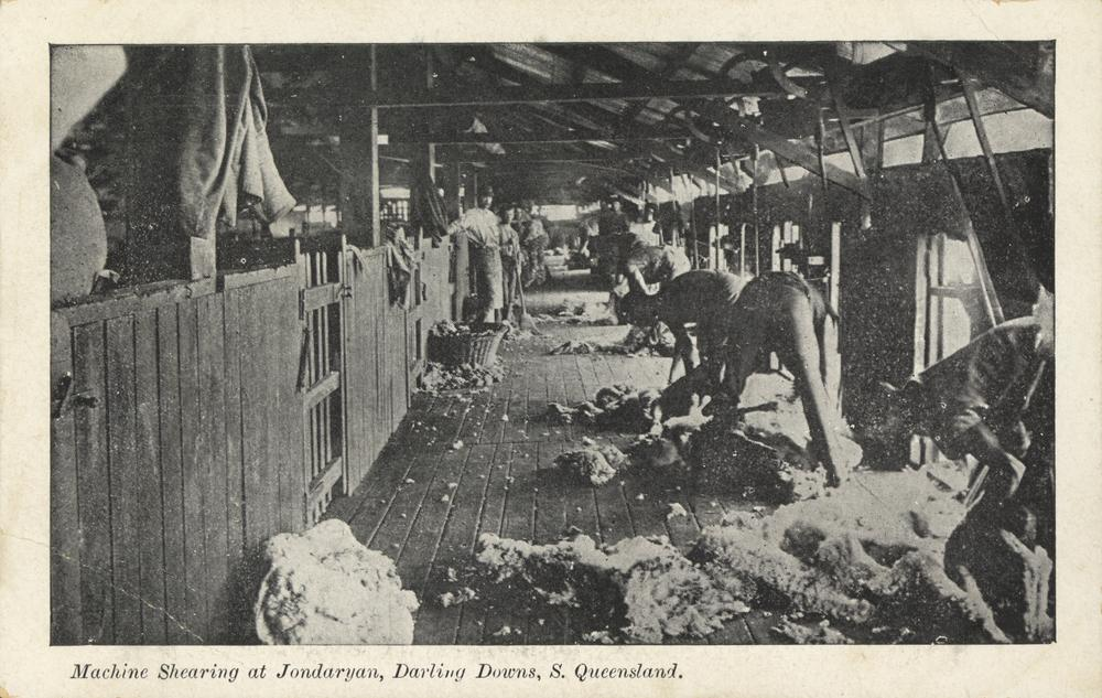 Machine shearing at Jondaryan on the Darling Downs, Southern Queensland. Part of the Intelligence and Tourist Bureau Brisbane postcard series.